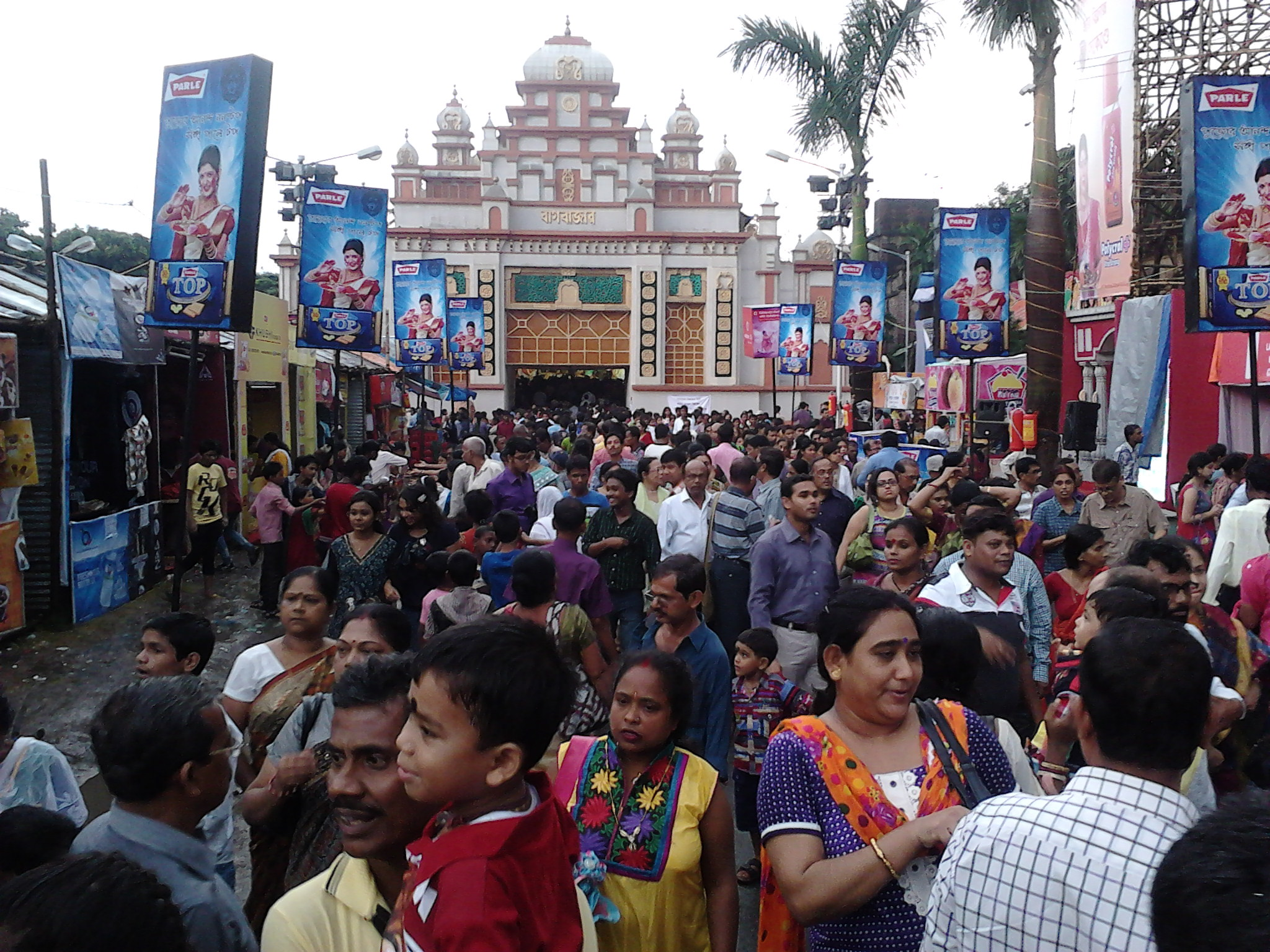 Photographed during the Durga Puja festival in Kolkata.